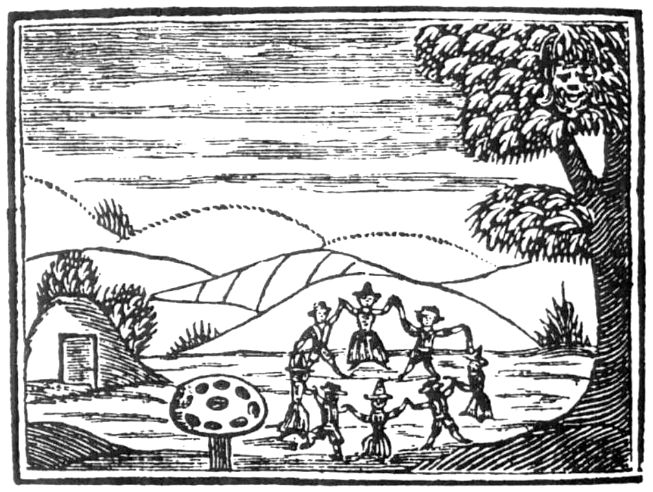 Fairies dancing in a ring near a large mushroom and a hill with a doorway. Woodcut fron an old English chapbook.